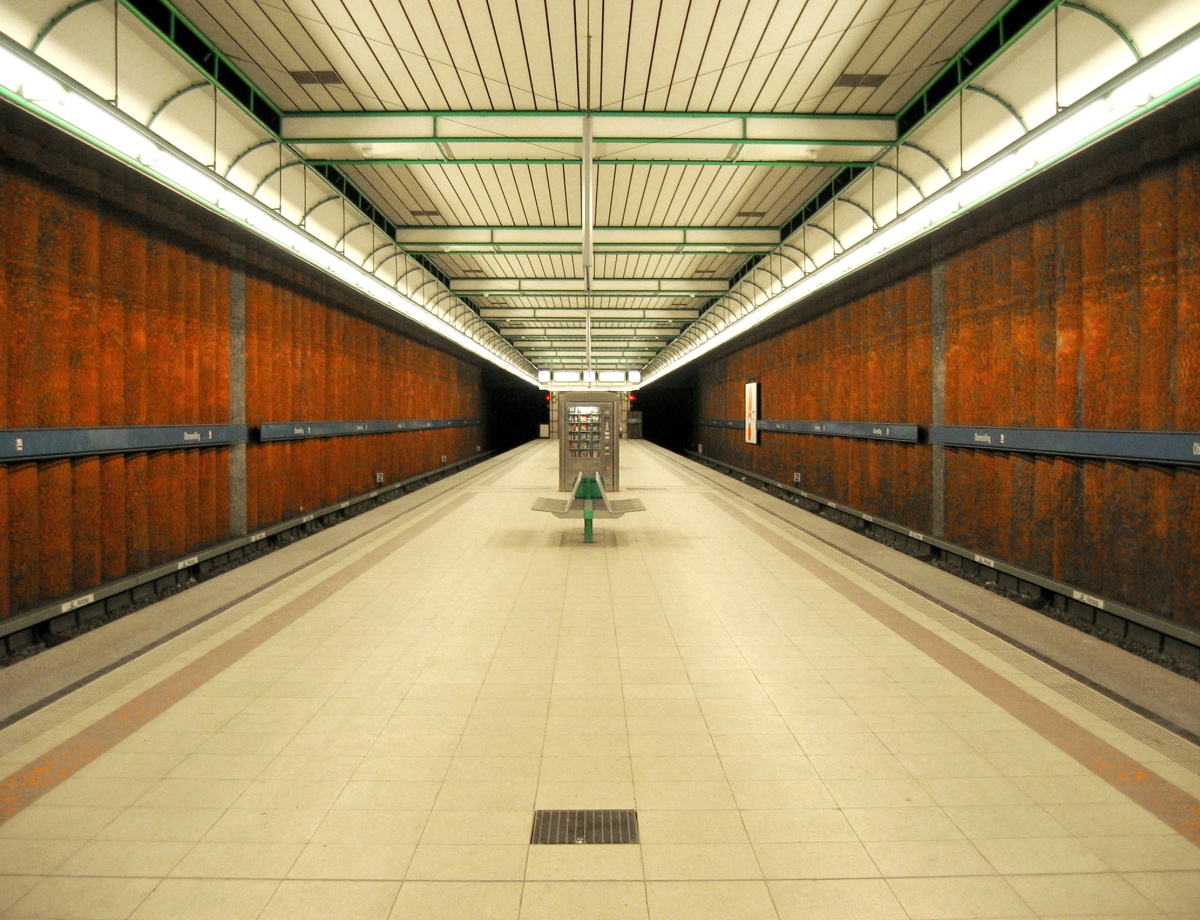 Munich subway station Obersendling